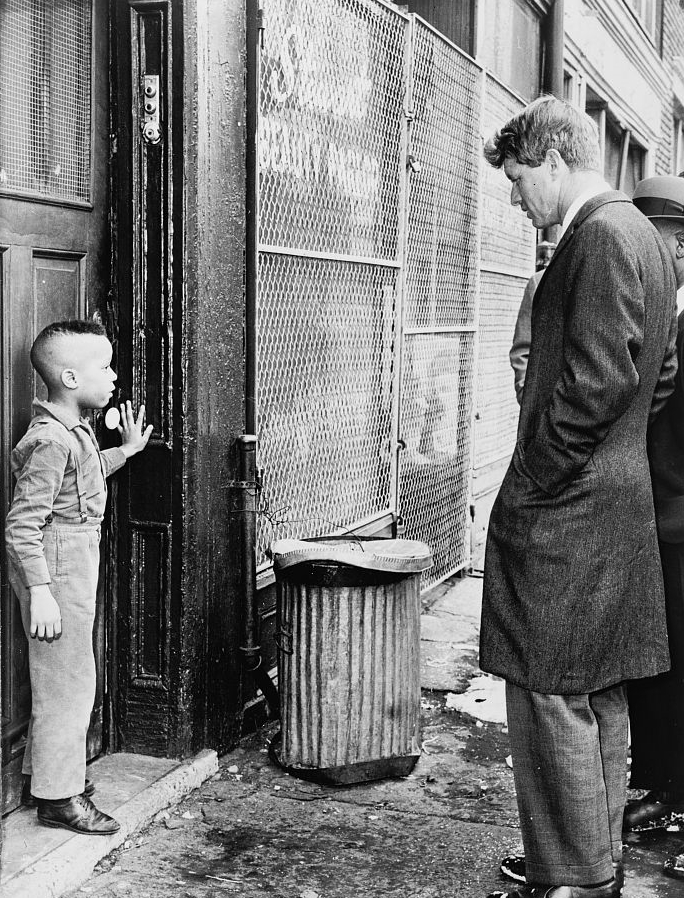 Senator Robert Kennedy discusses school with young Ricky Taggart of 733 Gates Ave. / World Telegram & Sun photo by Dick DeMarsico.